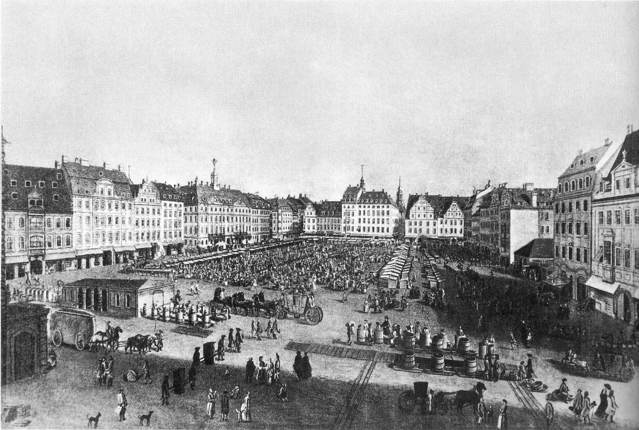 Market place of Dresden, Germany